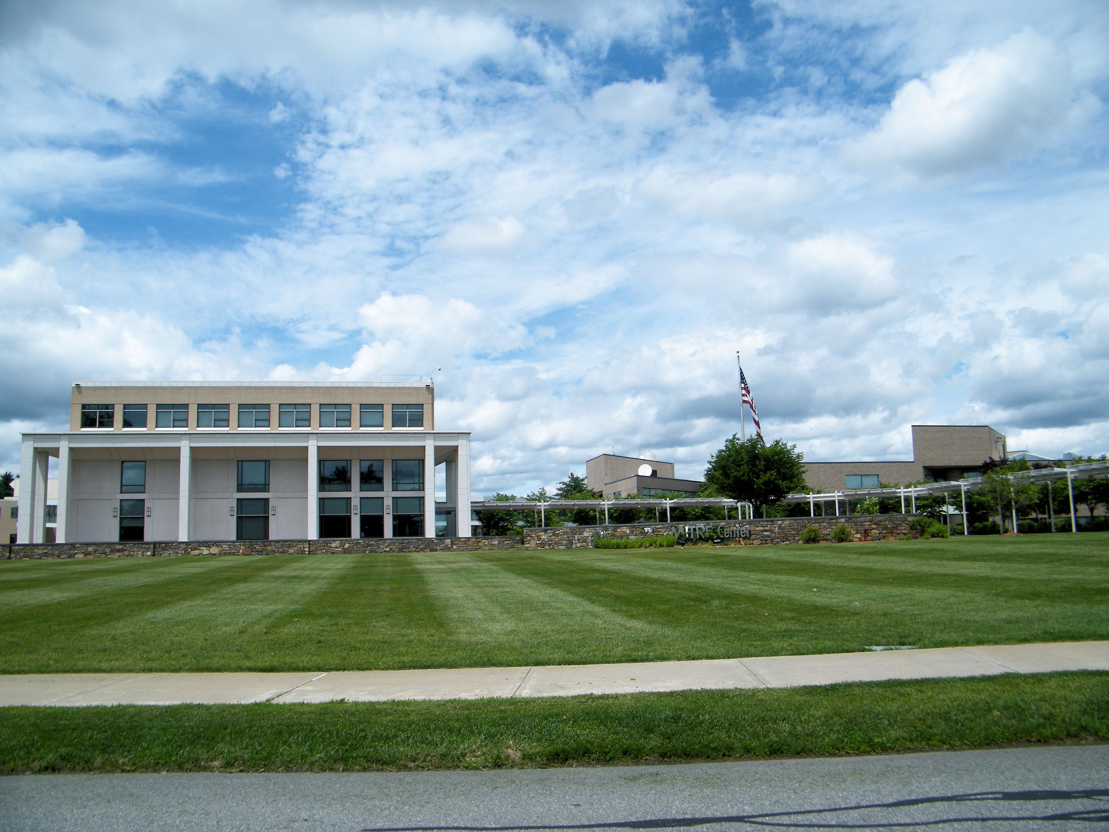 The MITRE Center at Mitre Corporation's campus in Bedford.